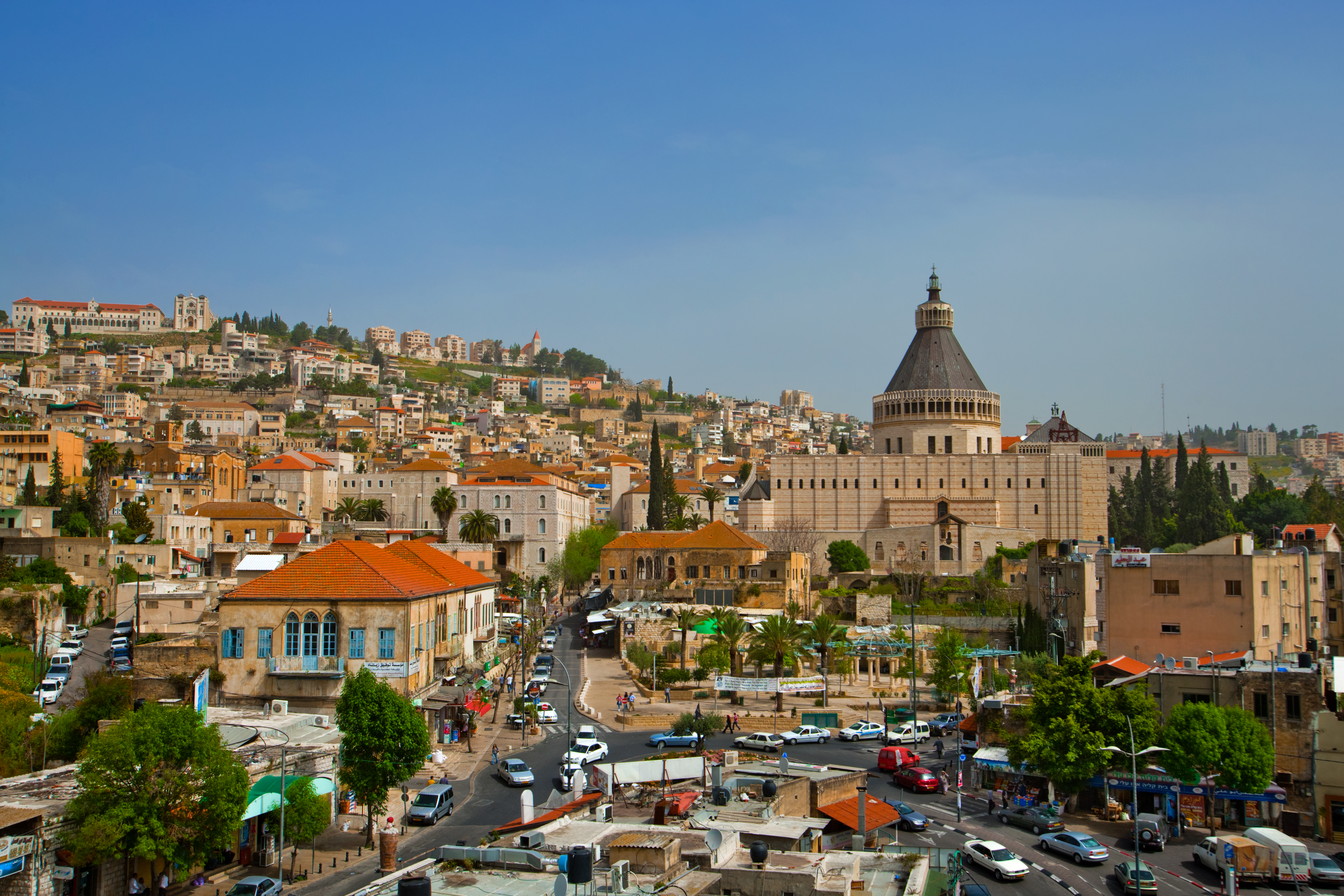 Nazareth, Galilee region with the Basilica of Annunciation on background. Photo taken by Daphna Tal for the Israeli Ministry of Tourism. Credit attribution requested